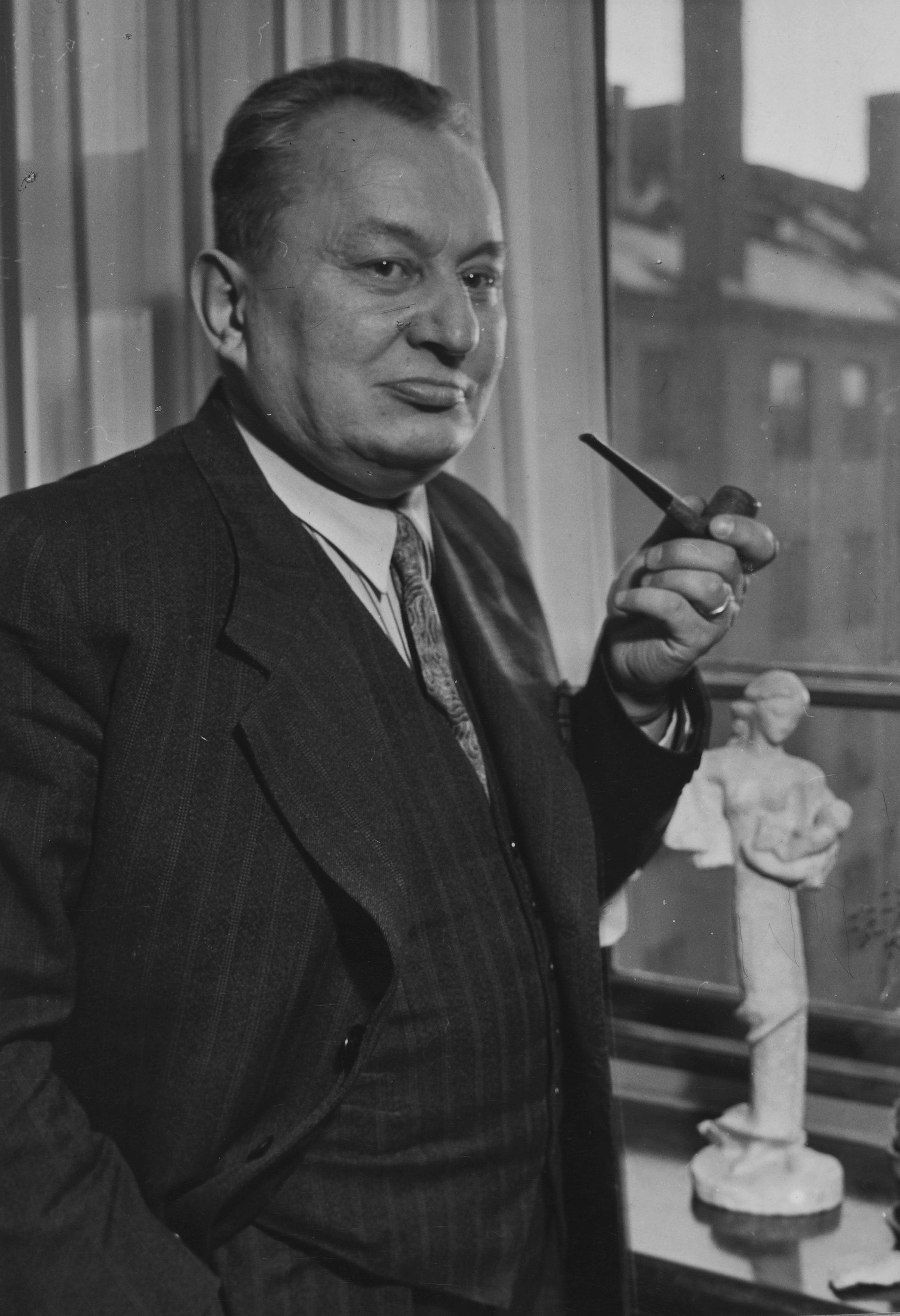 Photograph of the Finnish composer Aarre Merikanto (1893–1958).